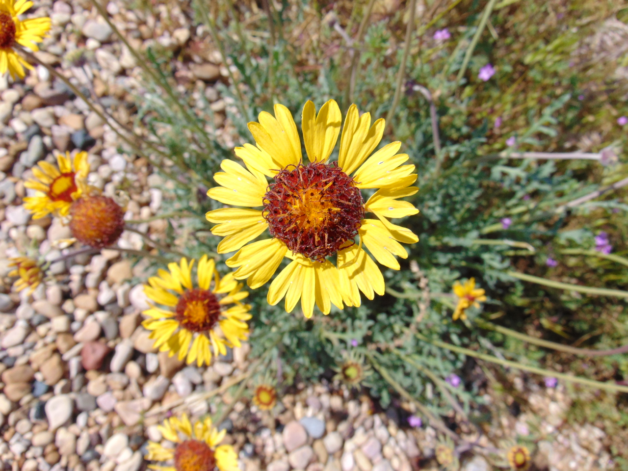 Gaillardia pinnatifida, near Page, Arizona